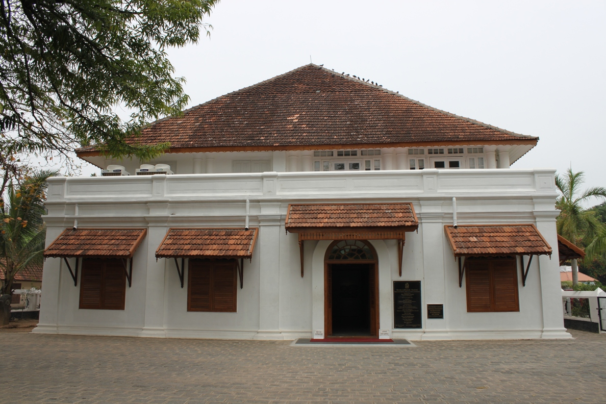 Kerala Lalitha Kala Academy - Durbar Hall Arts Centre Ernakulam - Kerala